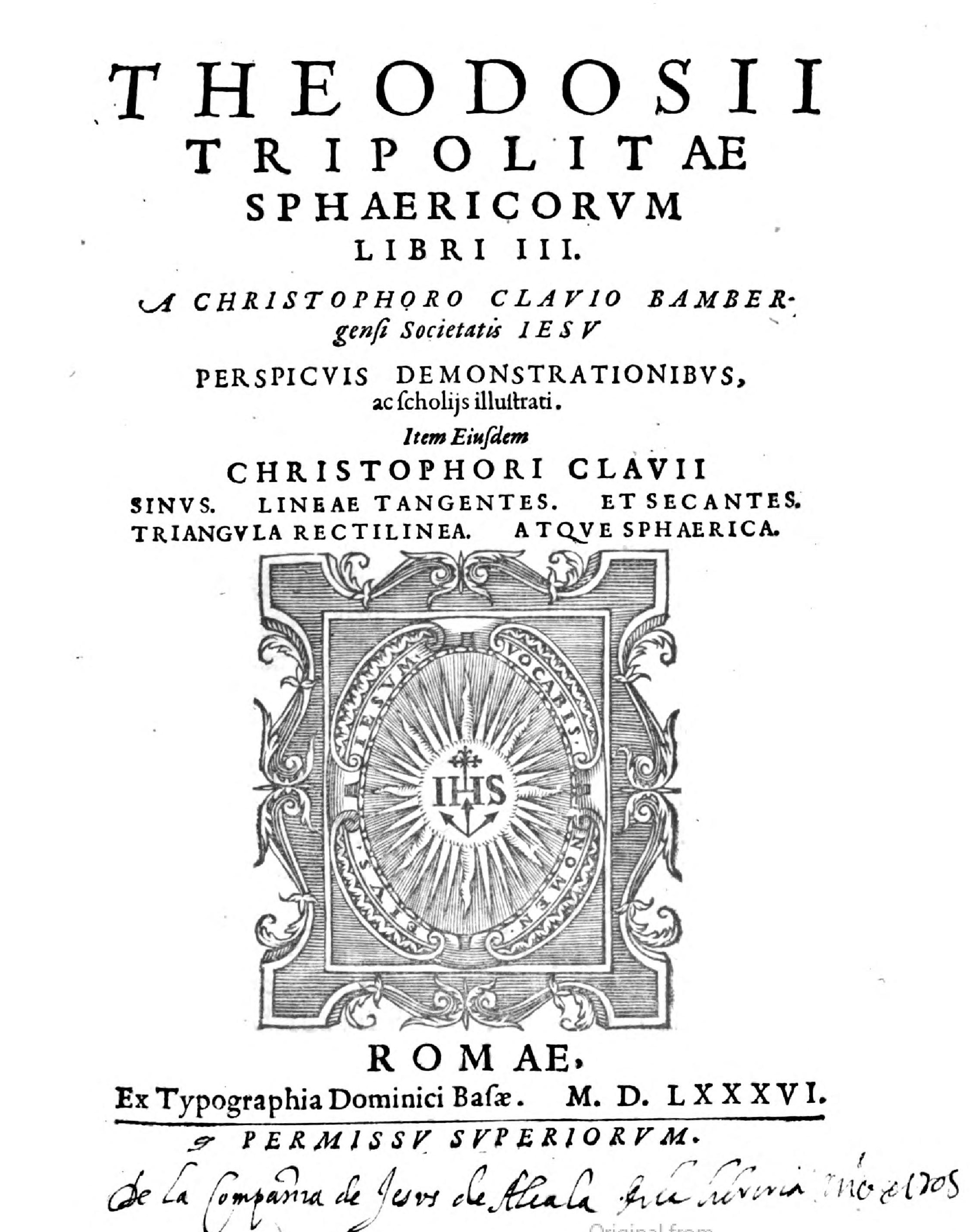 The title page of Theodosius of Bithynia "Sphaerics" in III books